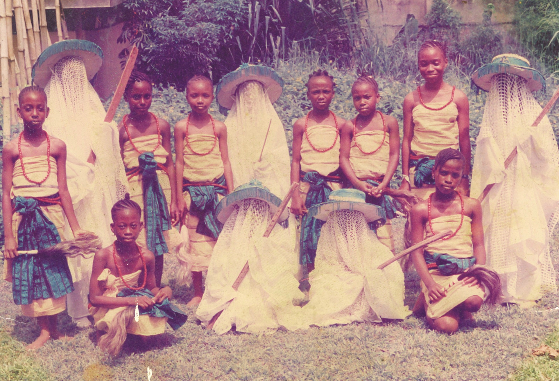 The Yoruba Cultural Group Children of Fasta International School - Taking Photograph after their presentation..